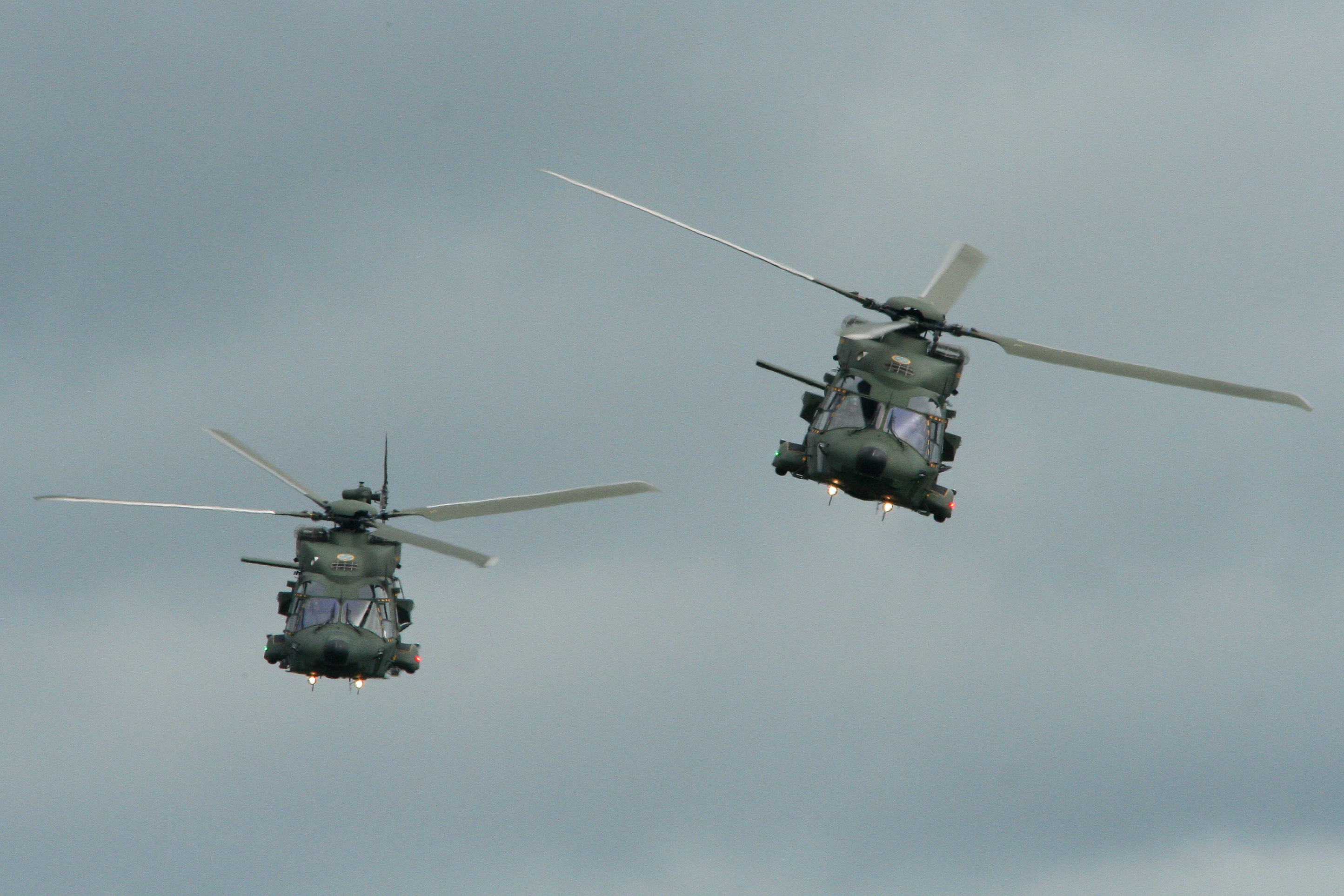 A pair of Swedish NH-90s gave a couple of flypasts. Leading is Hkp-14A '141043' (msn 1022) with Hkp-14B '142045' (msn 1048) behind. 2012 Malmen Airshow, Sweden. 03-06-2012